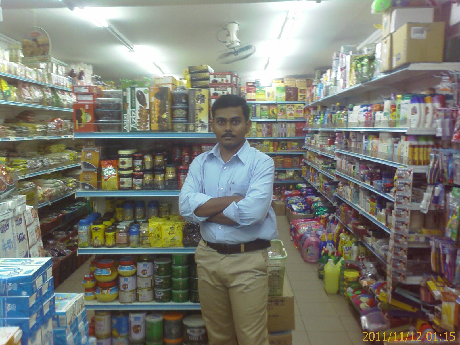 An Indian man in a mama shop at 22 Buffalo Road, Singapore, selling a wide range of Indian and Singaporean products.